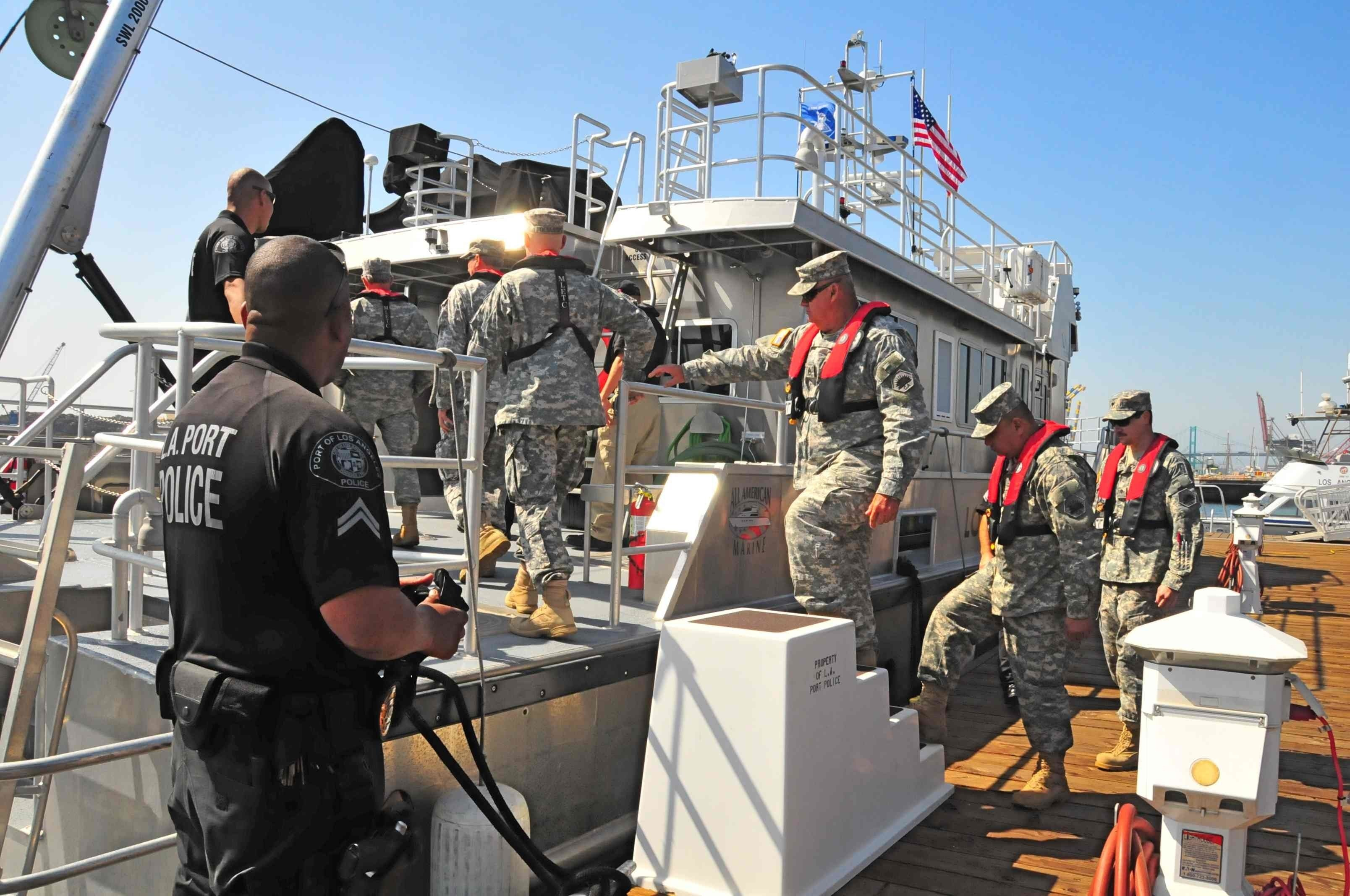 CSMR Soldiers board a Los Angeles Port Police dive support ship for a waterfront tour during an April 27, 2013, visit to the port facilities. (Photo by Staff Sgt. (CA) Richard Bergquist)